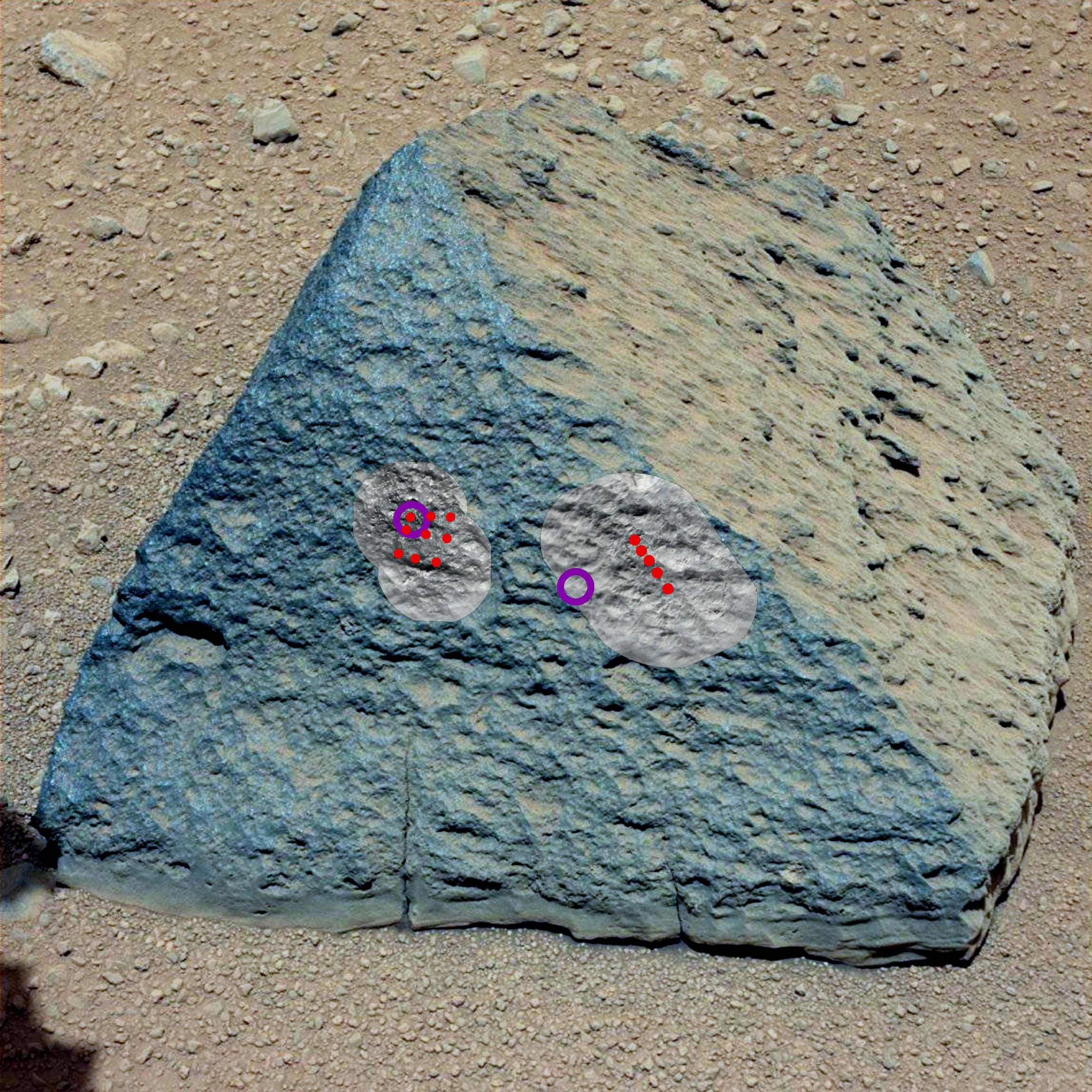 This image shows where NASA's Curiosity rover aimed two different instruments to study a rock known as "Jake Matijevic." The red dots are where the Chemistry and Camera (ChemCam) instrument zapped it with its laser on Sept. 21, 2012, and Sept. 24, 2012, which were the 45th and 48th sol, or Martian day of operations. The circular black and white images were taken by ChemCam to look for the pits produced by the laser. The purple circles indicate where the Alpha Particle X-ray Spectrometer trained its view. This image was obtained by Curiosity's Mast Camera on Sept. 21, 2012 PDT (Sept. 22 UTC), or sol 46. Scientists white-balanced the color in this view to increase the inherent differences visible within the rock.